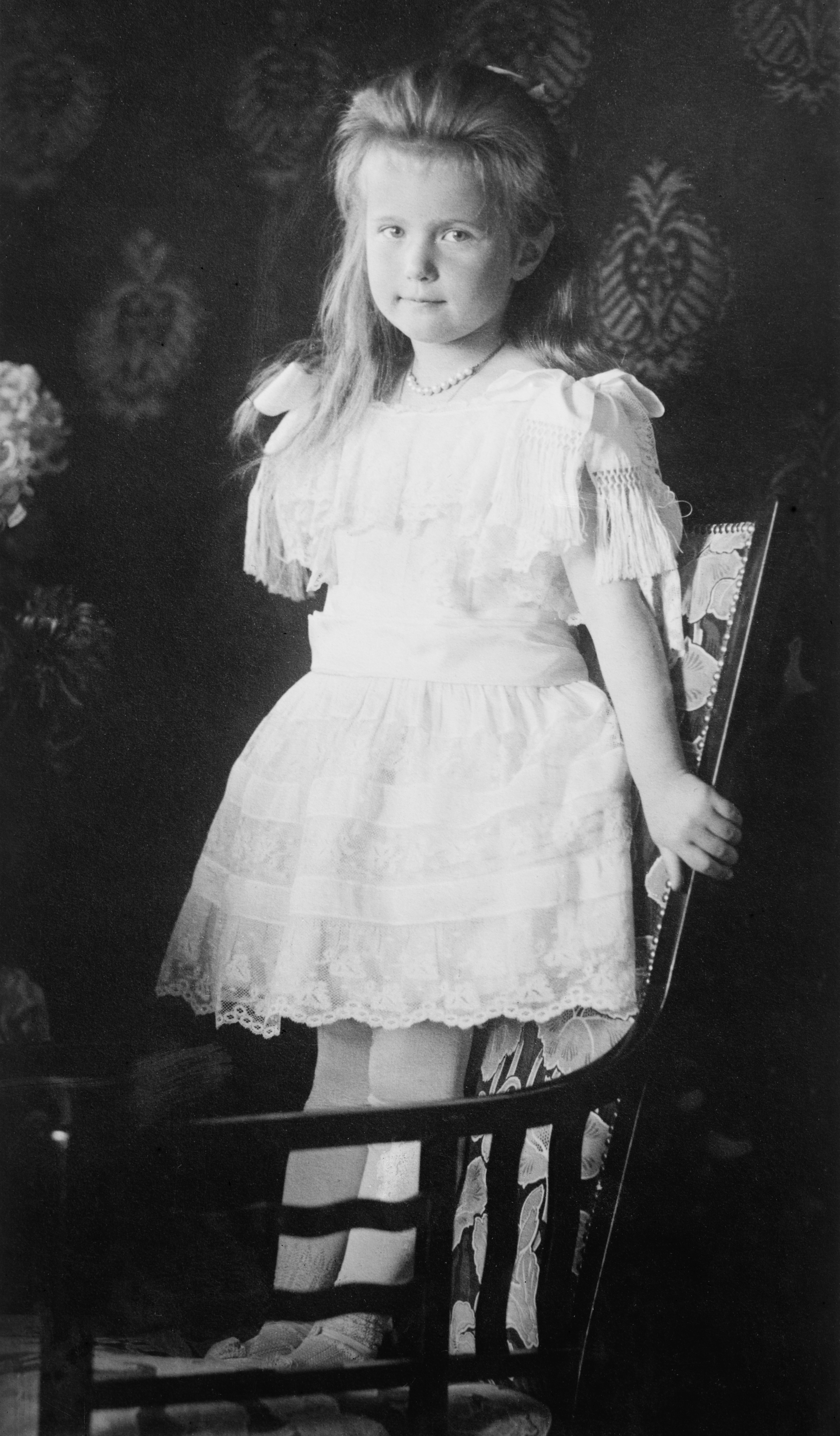 Grand Duchess Anastasia Nikolaevna of Russia, 1901-1918, standing on a chair. The photo was taken in approximately 1906.